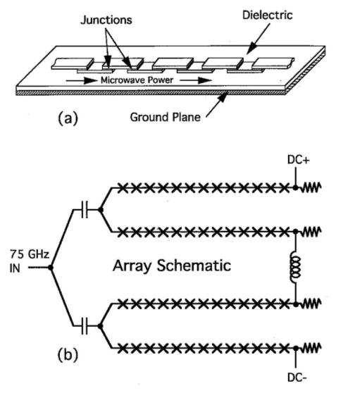 The layout and schematic of a series array Josephson voltage standard chip